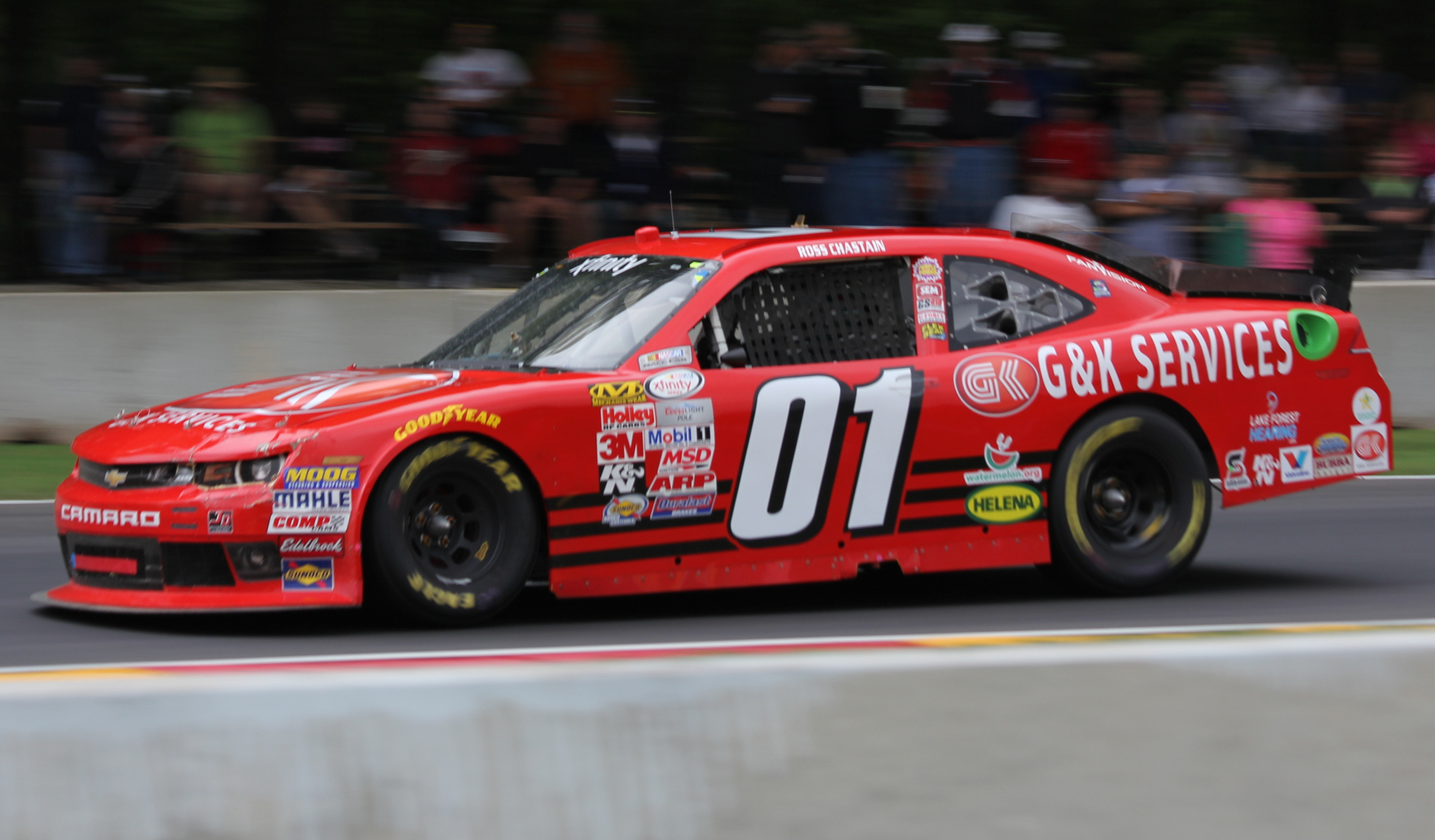 The NASCAR Xfinity Series car of Ross Chastain turning left in Turn 6 at Road America.